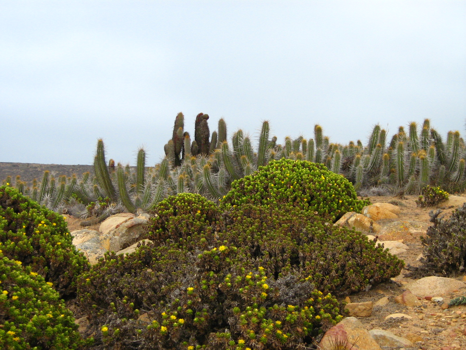 Typical vegetation